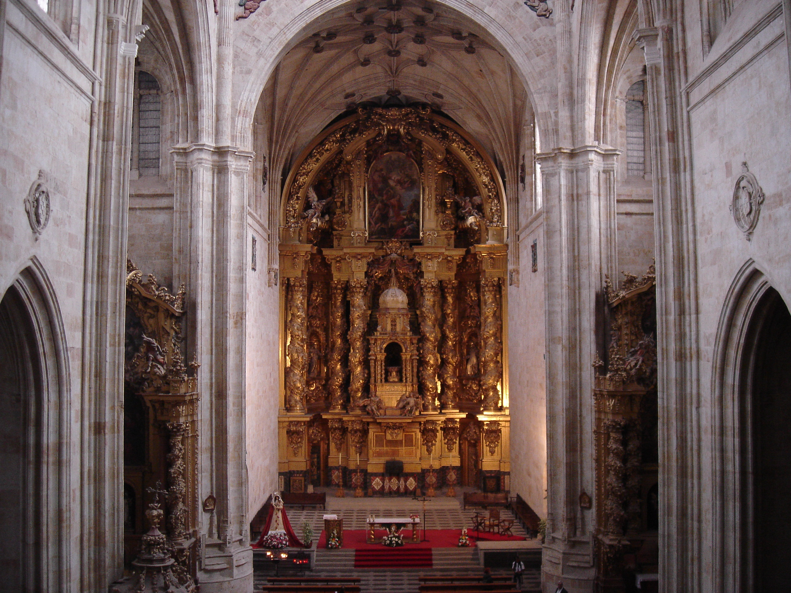 Photo of the retable of San Esteban in Salamanca